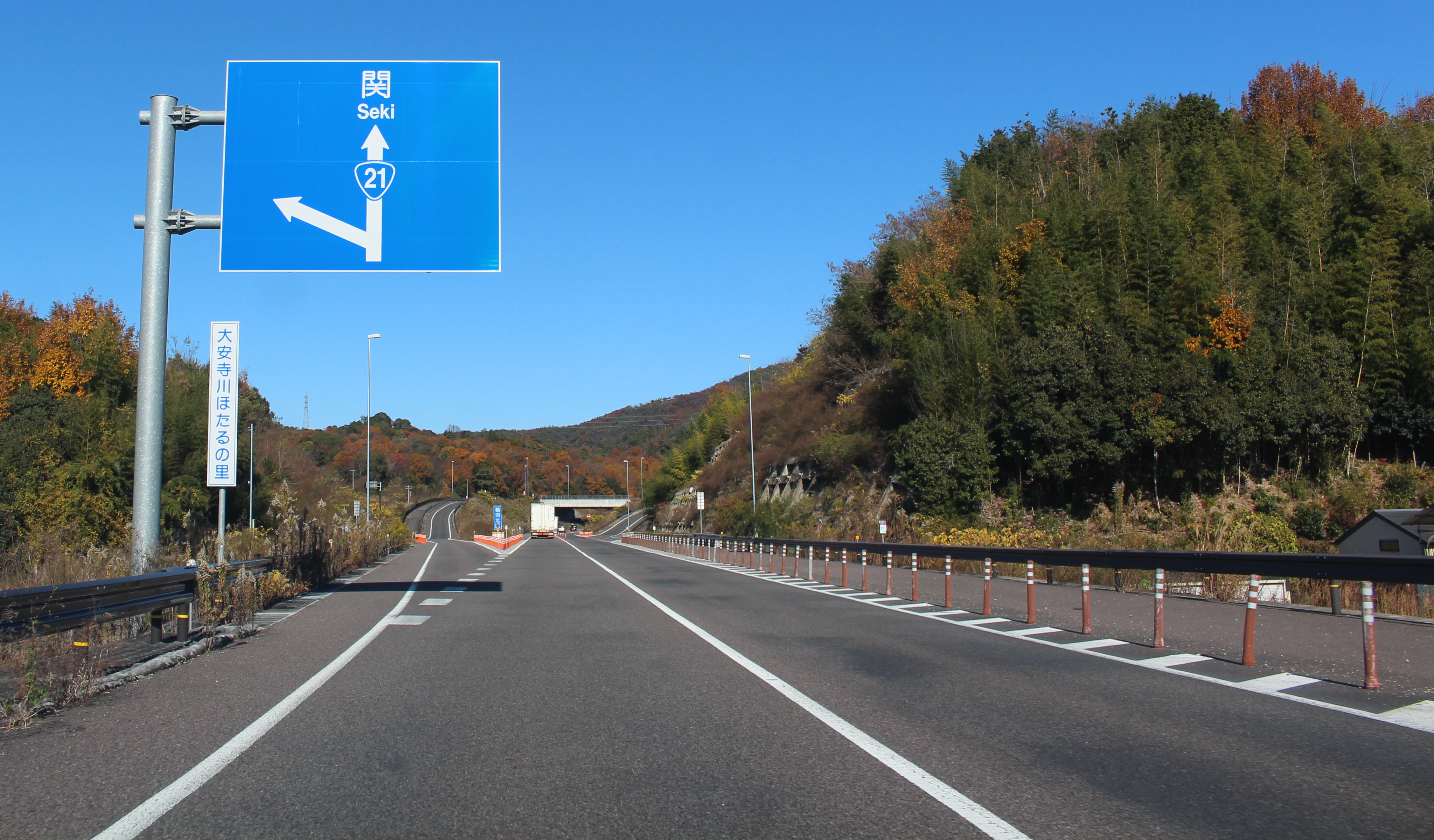 Unumakita IC of Sakahogi bypass (Route 21) in Kakamigahara, Gifu prefecture, Japan.